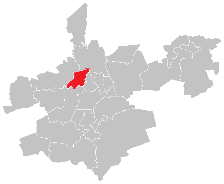 Location map of Olomouc district Hejčín